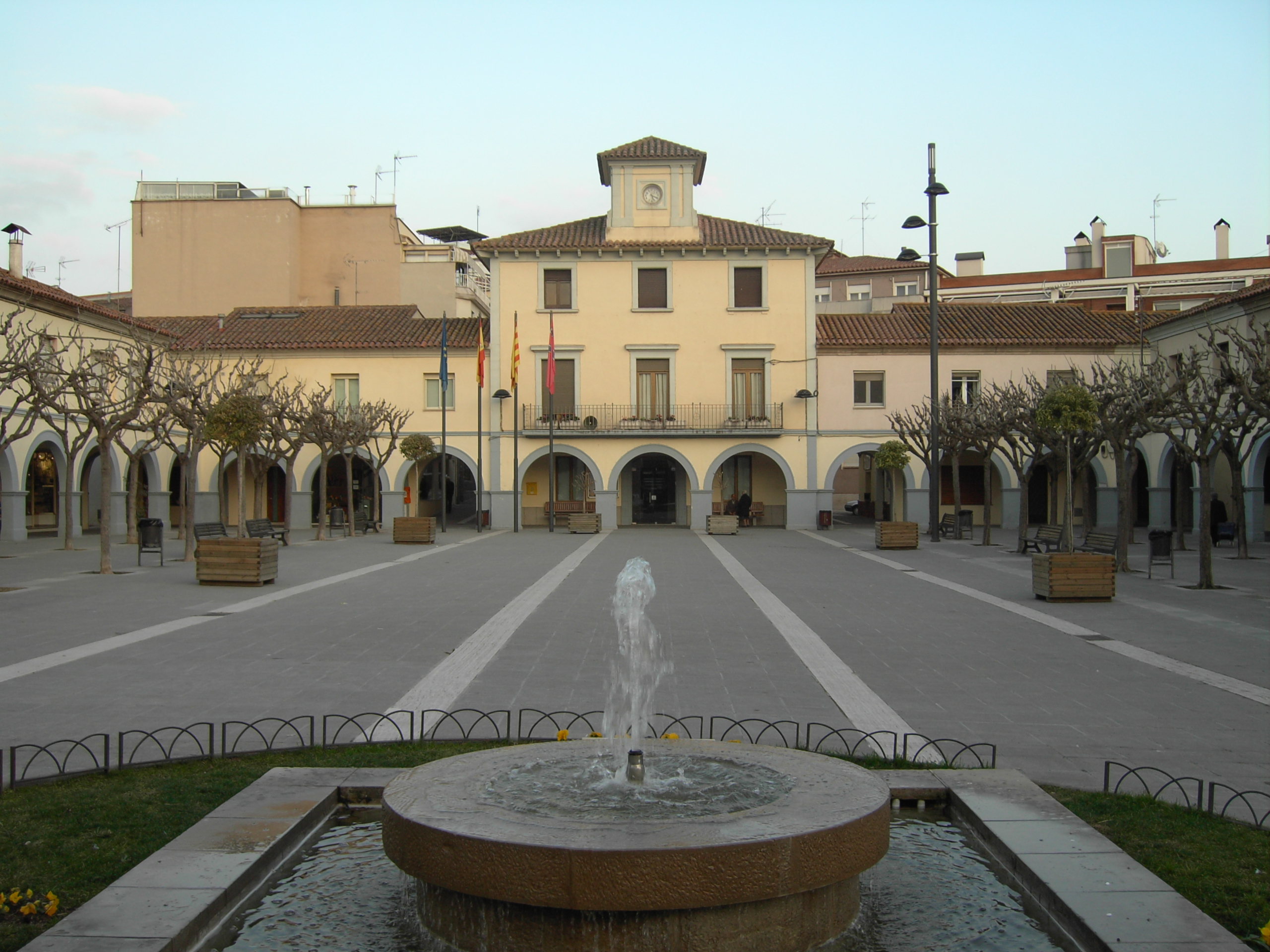 Sentmenat Town Hall, Catalonia